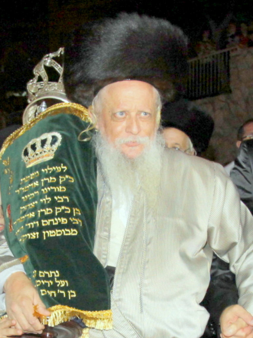 Grand Rabbi Mayer Alter Horowitz, the Bostoner Rebbe, at a Hachnasat Sefer Torah dedicated in memory of his father, Grand Rabbi Levi Yitzchak Horowitz. Location: Givat Pinchas synagogue, Har Nof, Jerusalem. Date: Succos 5773 (October 2012)